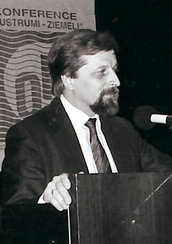 Politician Janis Dinevičs, Latvia